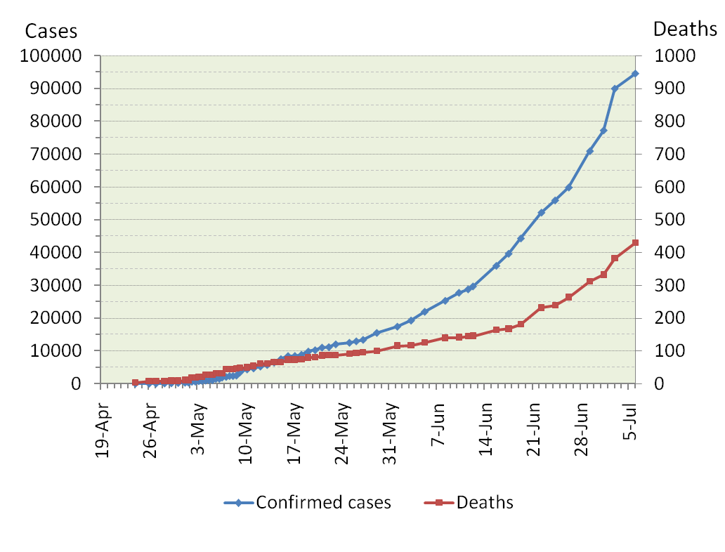 Influenza A (H1N1) cases in 2009 pandemic